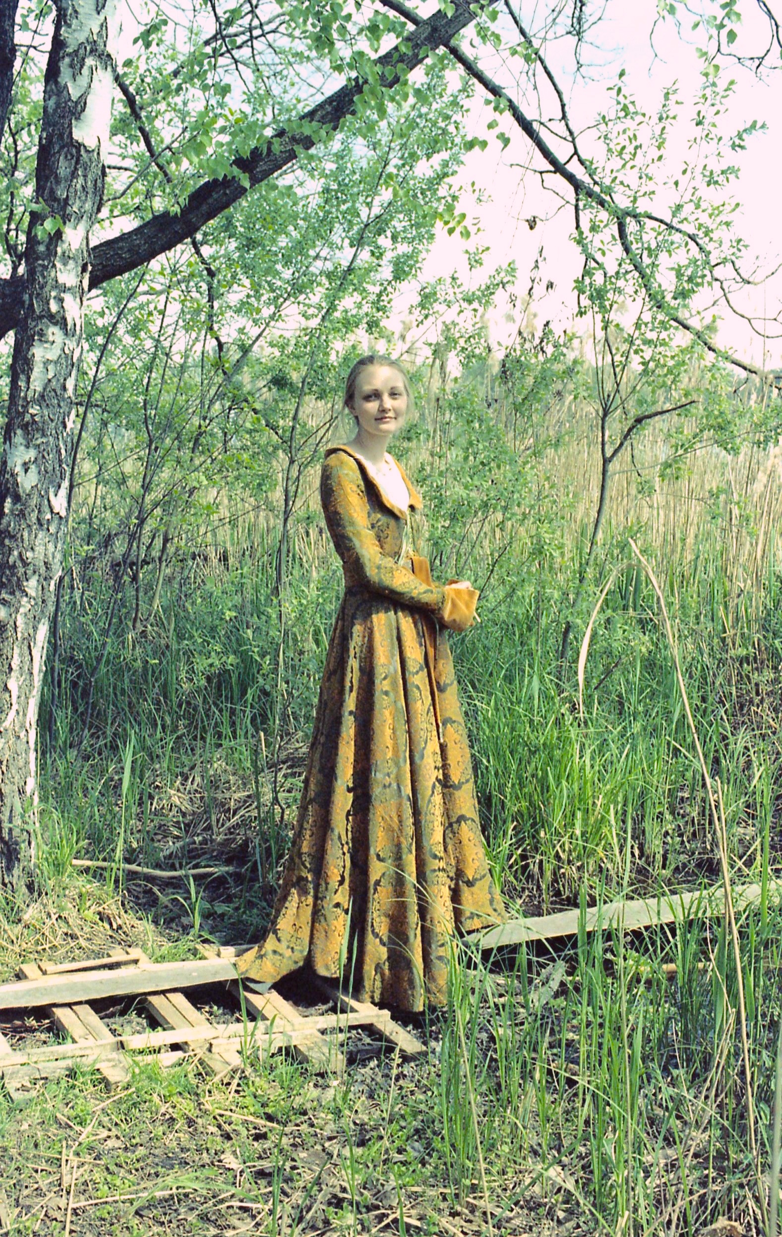 A girl in a medieval festival Kiev(2016)